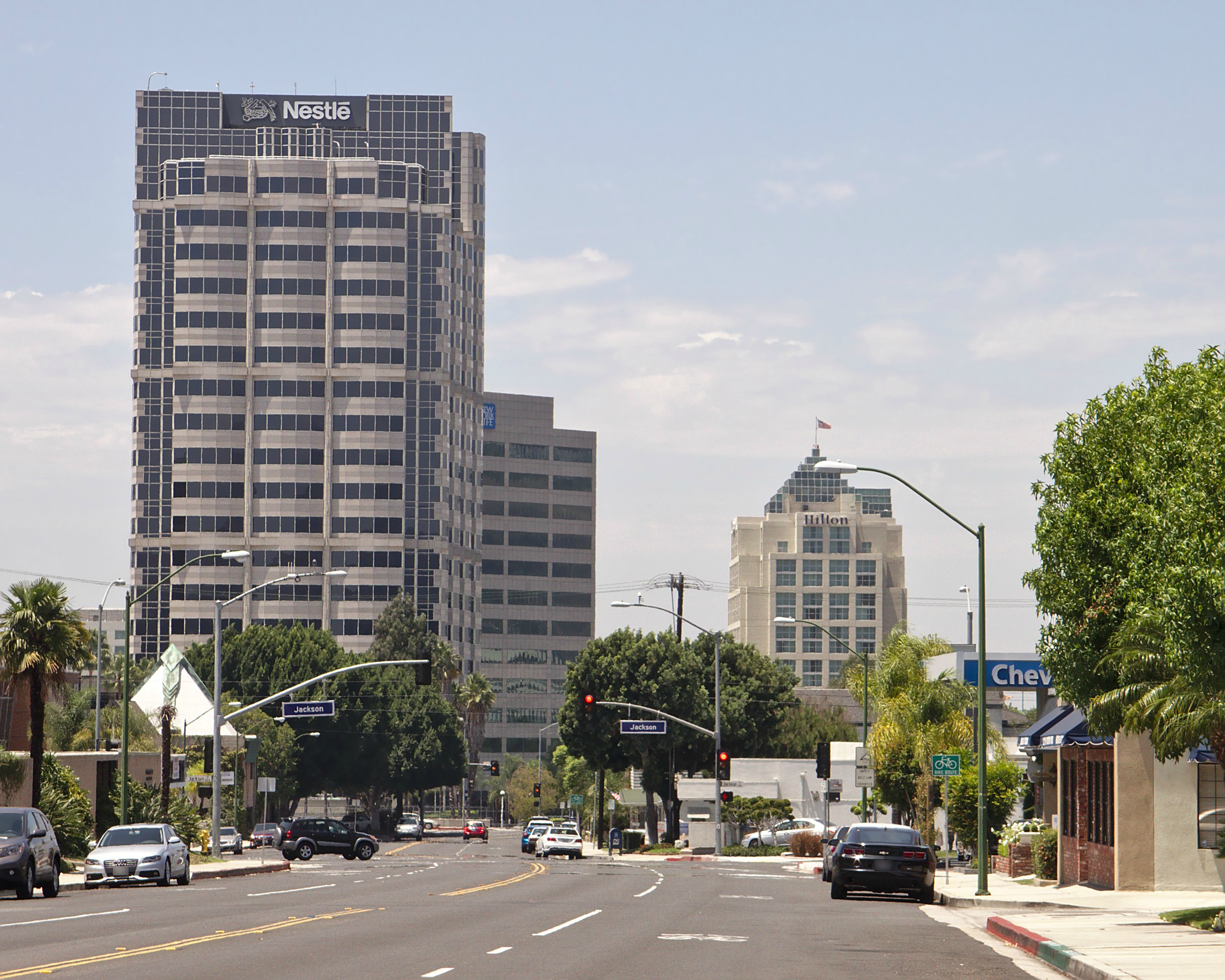 Nestlé building from Glenoaks Boulevard in Glendale.